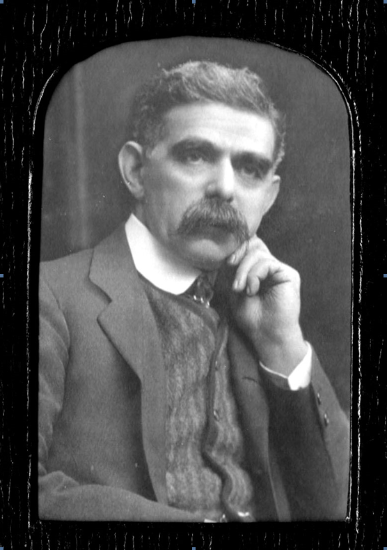 Framed photo of Carl Vandyk